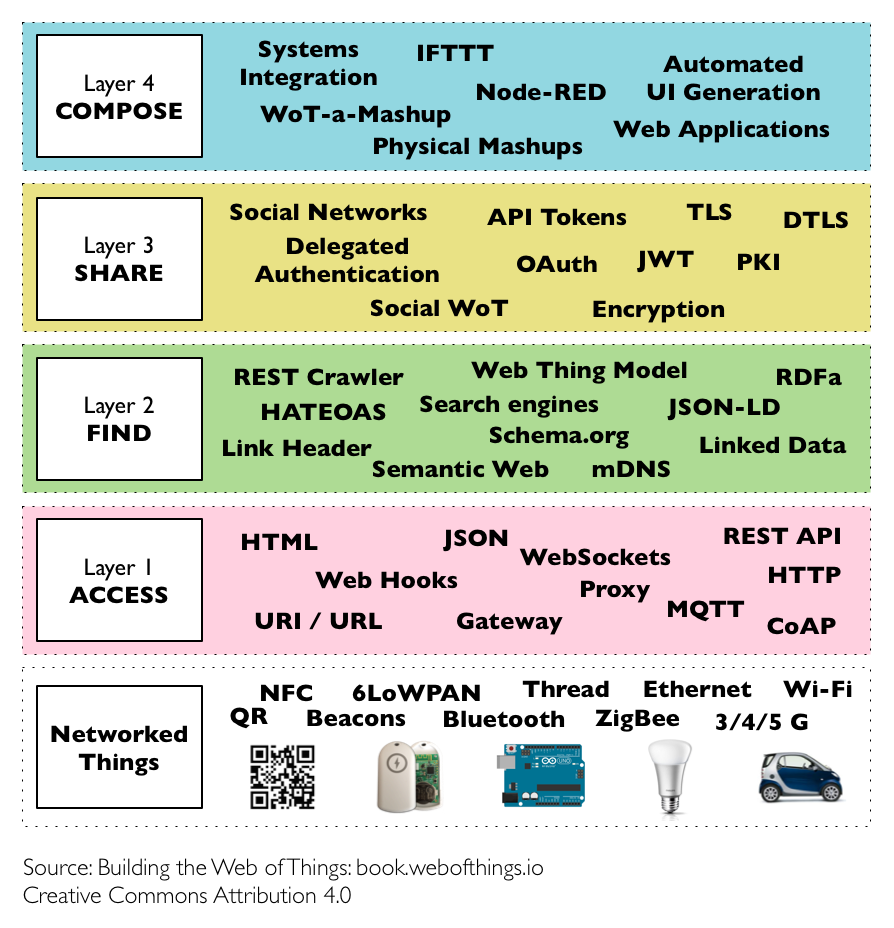 Layers of the Web of Things Architecture as described in Building the Web of Things (book)